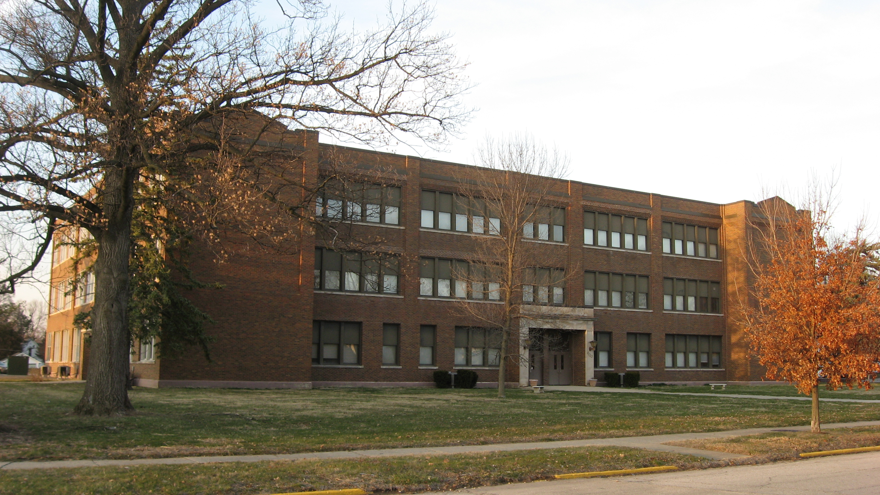 Front and western side of the Lincoln Park School, located at 600 W. North Street in Greenfield, Indiana, United States. Built in 1926, the complex is listed on the National Register of Historic Places.